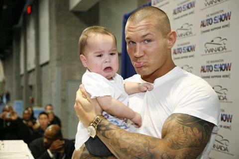 WWE wrestler Randy Orton (RKO).